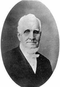 John Taylor, third president and Prophet of The Church of Jesus Christ of Latter-day Saints from 1880 to 1887.